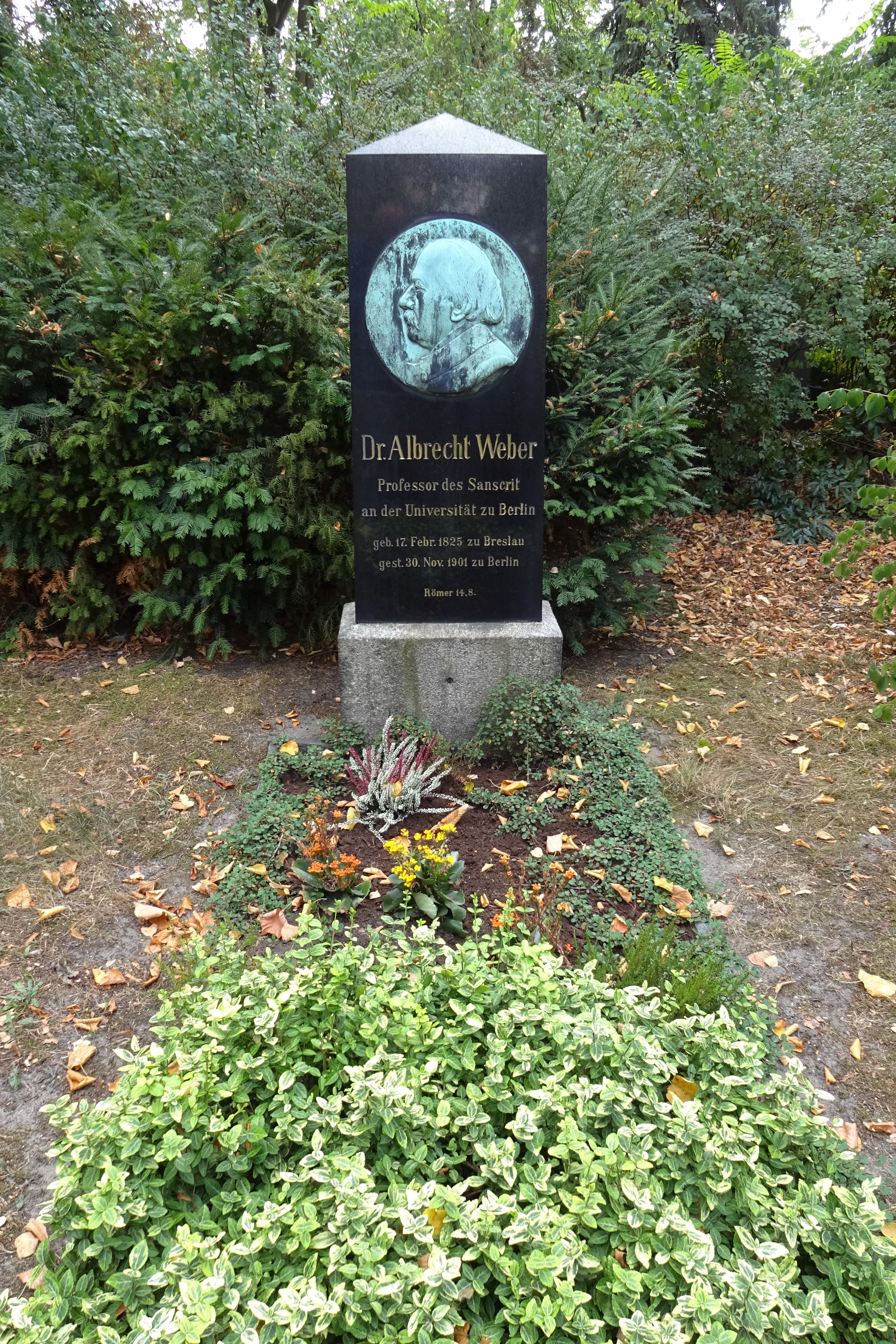 Grave of German indologist Albrecht Weber in Alter St.-Jacobi-Friedhof in Berlin-Neukölln